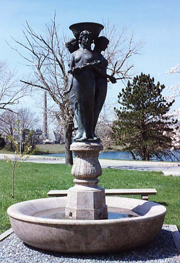 McMillan Fountain, 1912, Washington, DC